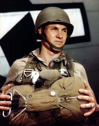 A Pigeon Bra in use by WW II soldier